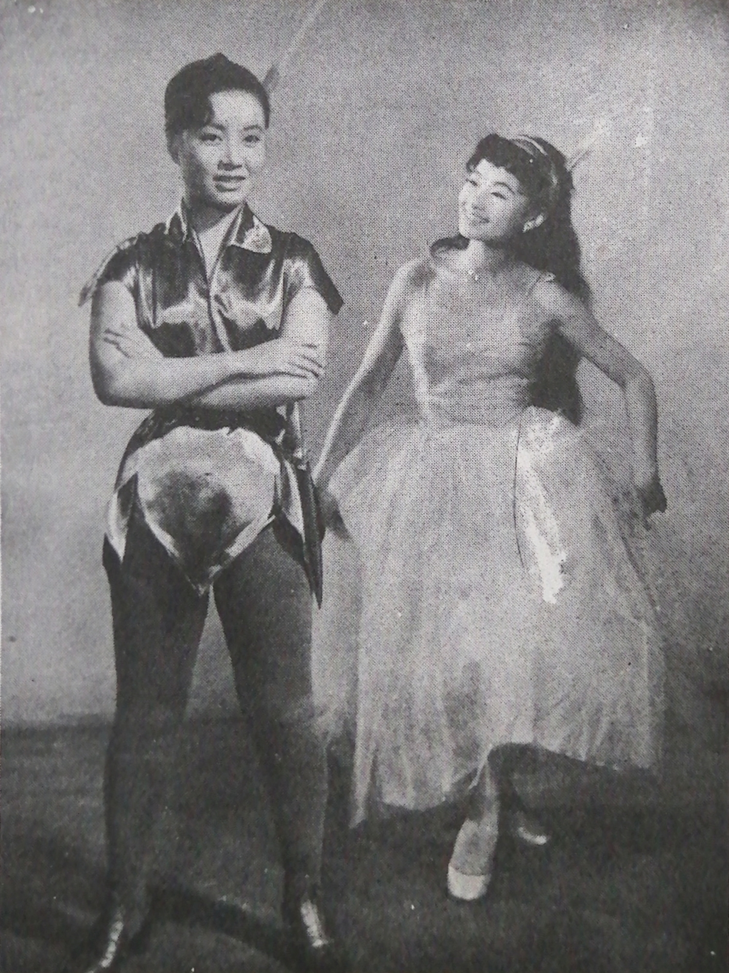 美空ひばりと雪村いづみ